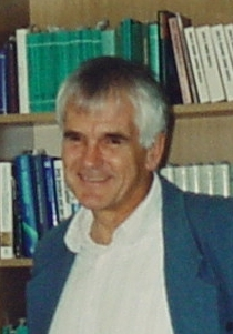 Prof. Dr. Arno Ros c. 1997